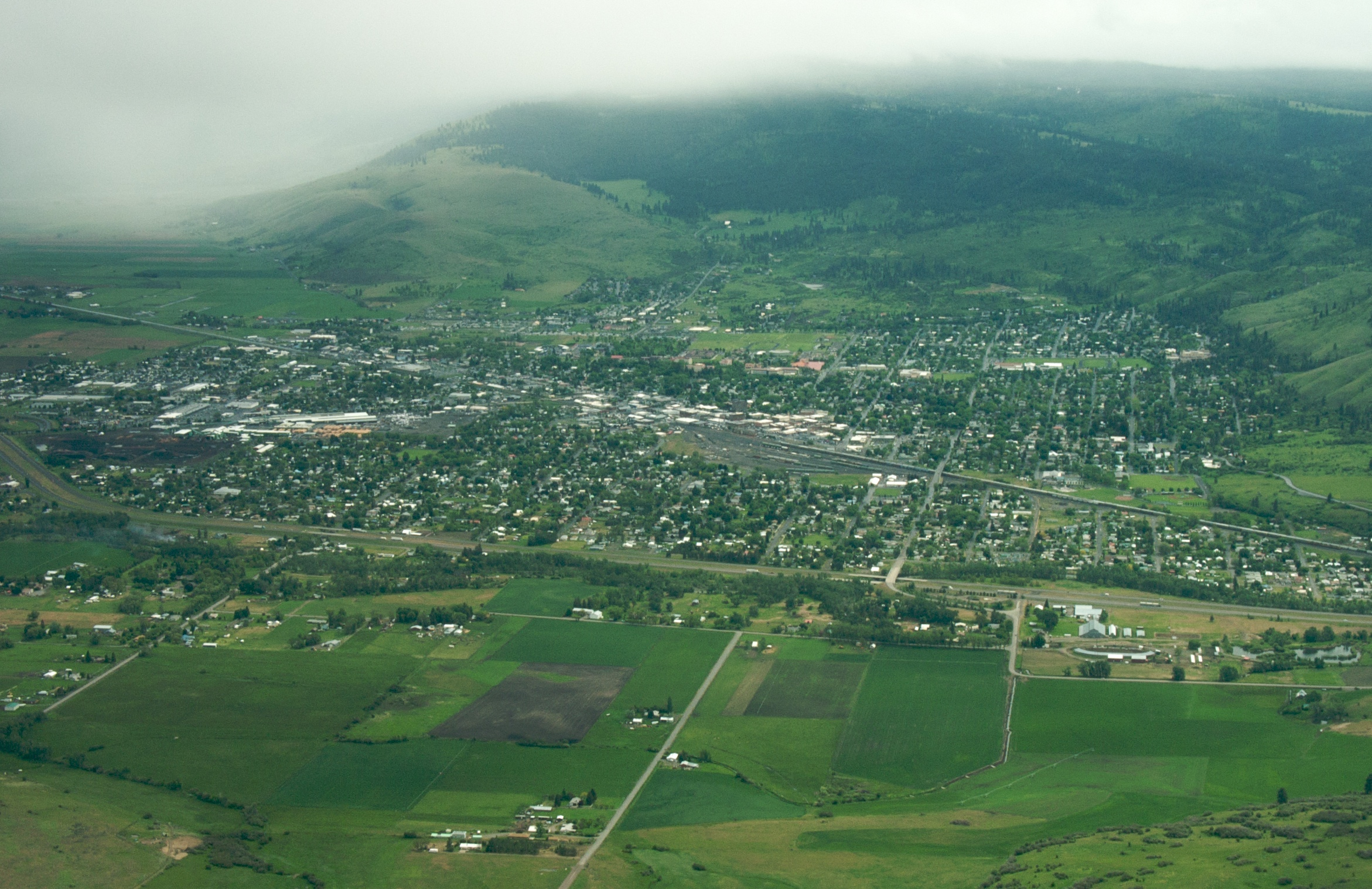 Aerial view of La Grande, Oregon, USA